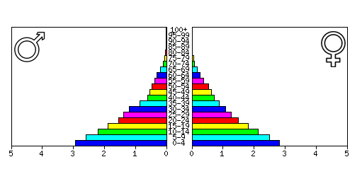 Population Pyramid Summary for Sudan of 2000 (in millions of people), based on data from U.S. Census Bureau, Population Division without any English language in the picture. Also see the original picture